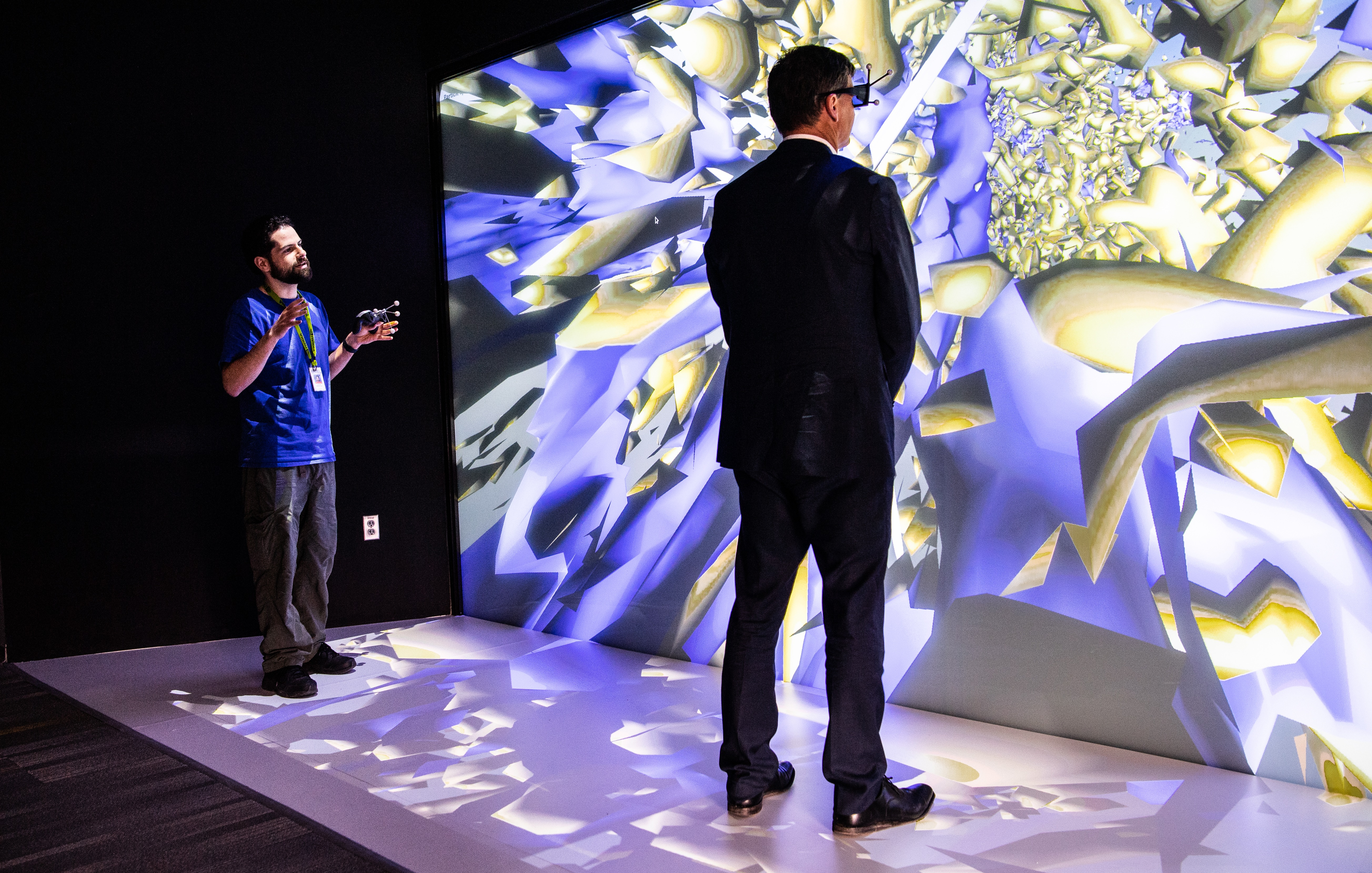 The Honorable Angus Taylor MP, Minister for Energy and Emissions Reduction, Australia tours the 3D Visualization Laboratory Room at the Energy Systems Integration Facility at National Renewable Energy Laboratory. Scientific Visualization Postdoctoral Researcher, ESIF Insight Center demonstrates a 3D wind farm simulation model showing wind turbine turbulence wake. For more information or additional images, please contact 202-586-5251.